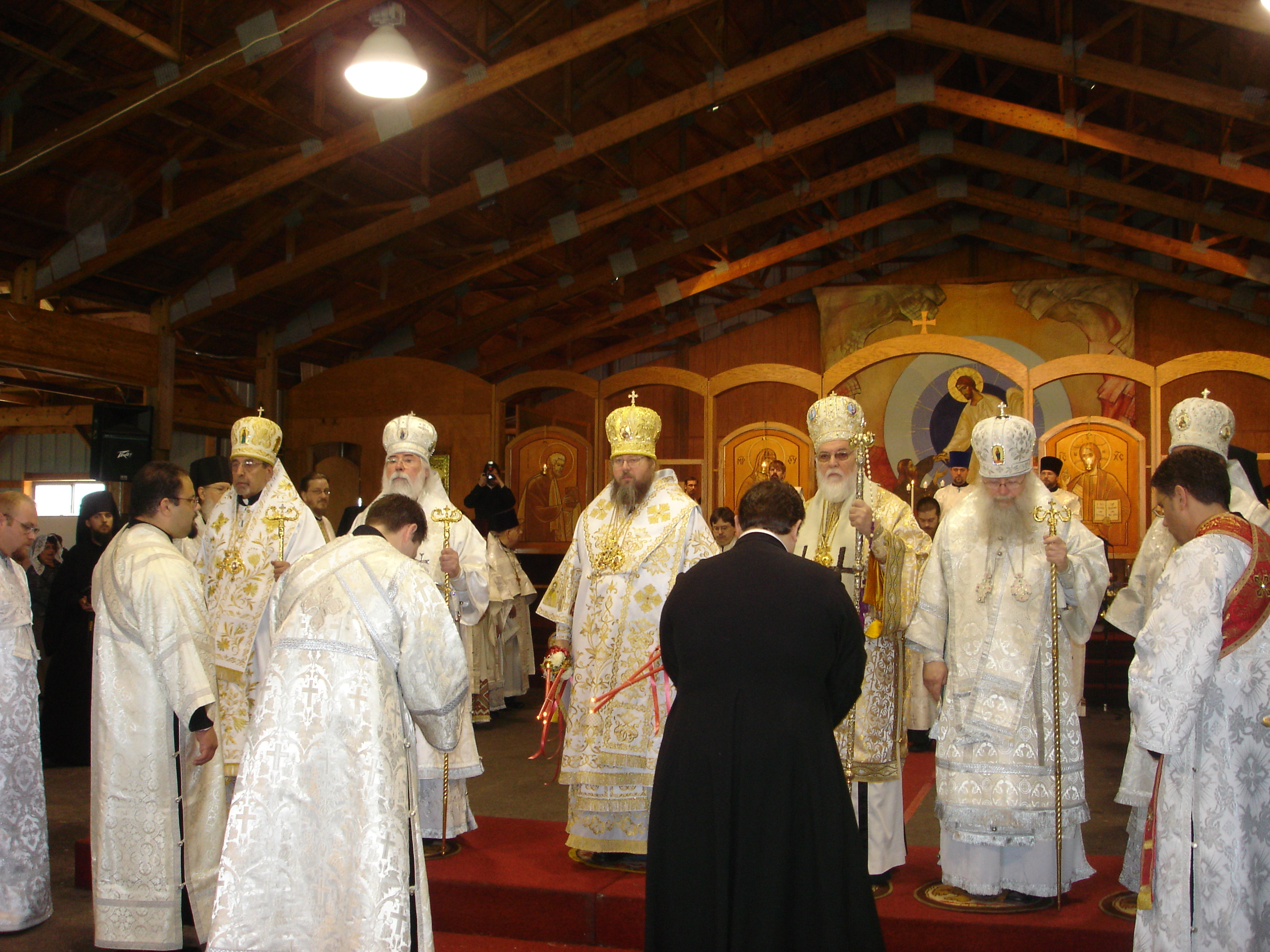 Saint Tikhon's Monastery and Theological Seminary (South Canaan, Pennsylvania, USA)